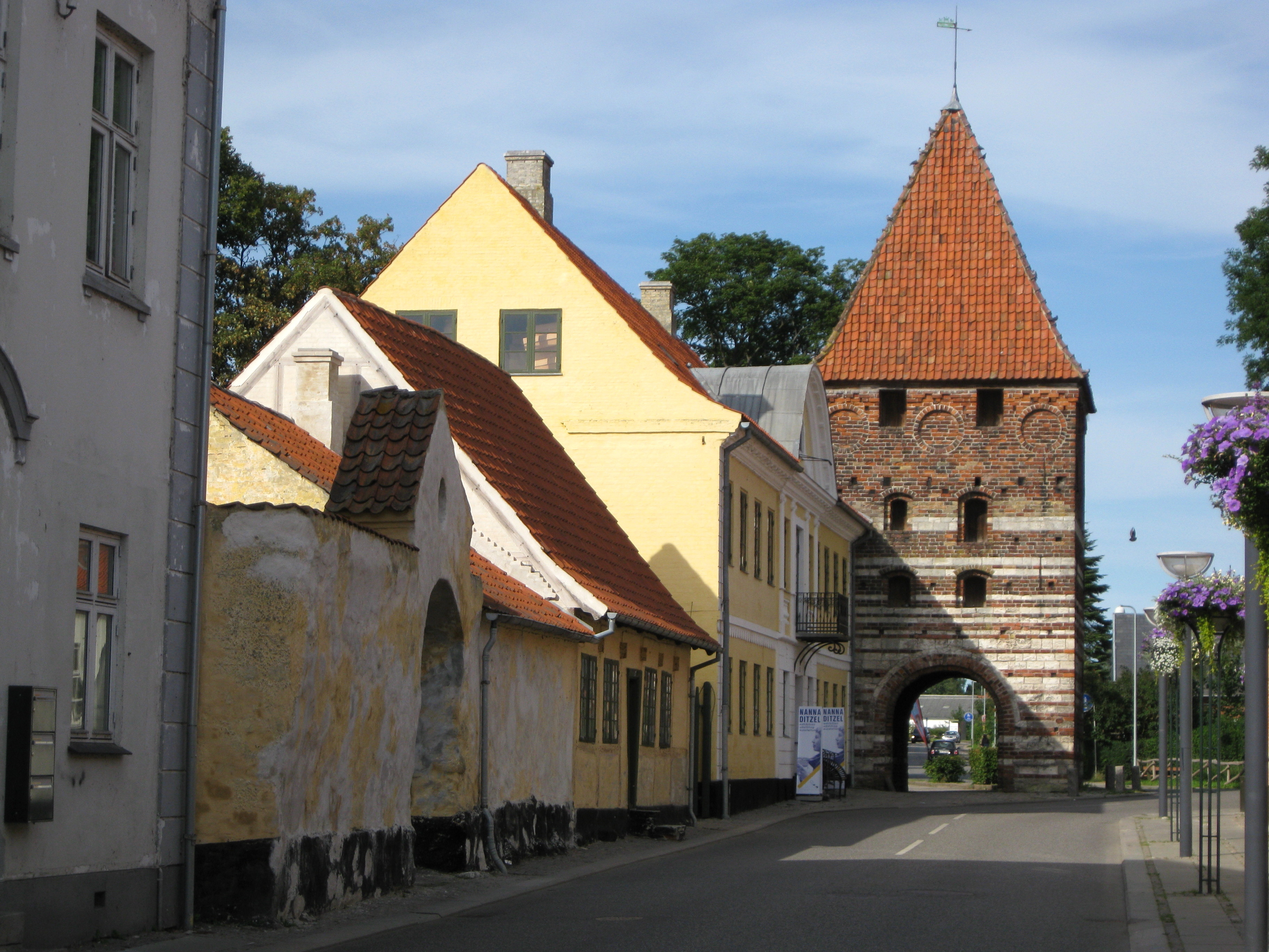 The old town gate "Mølleporten" located in the small town "Stege" on the island Møn south of Zealand, east Denmark.